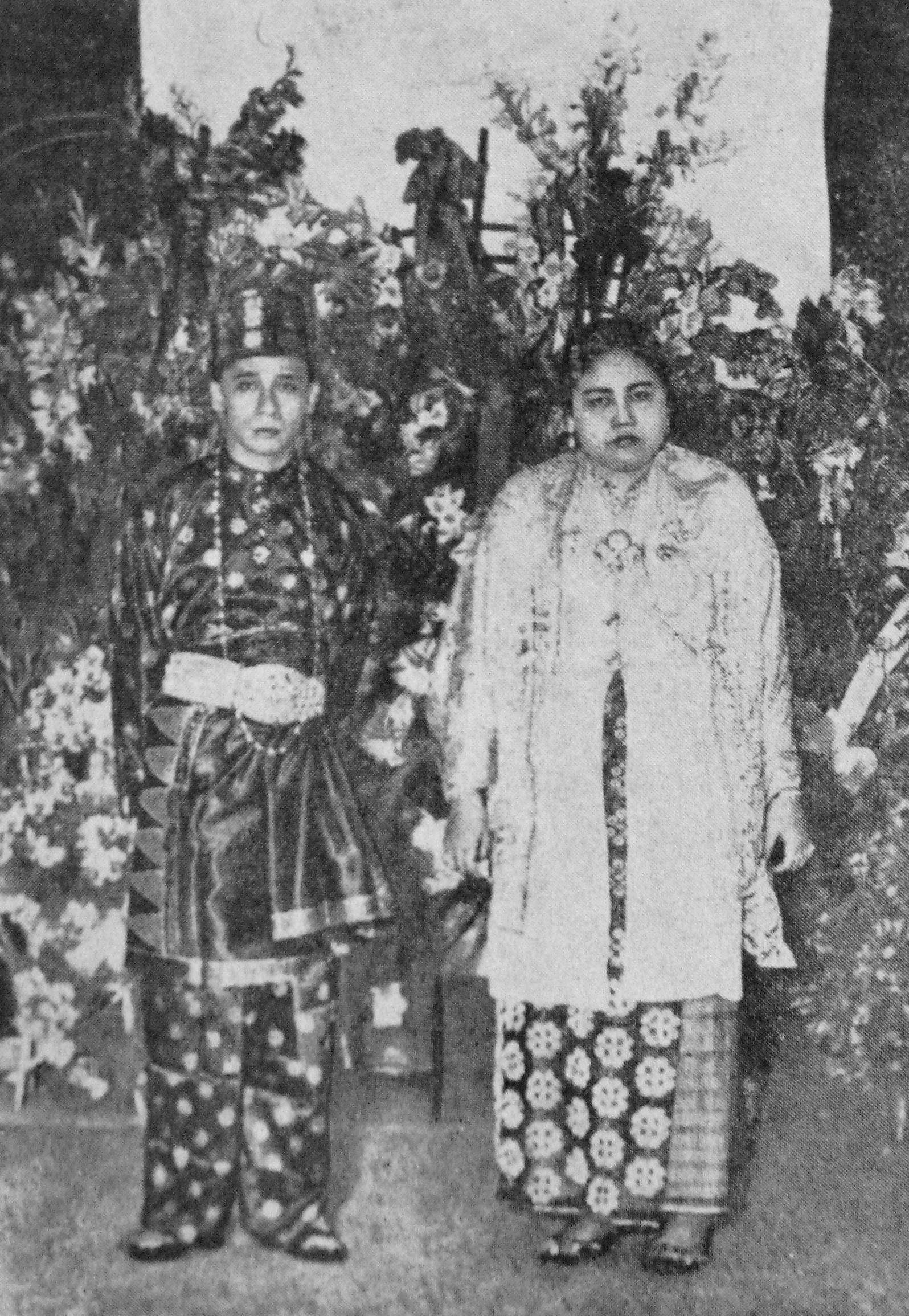 Indonesian poet Amir Hamzah at his wedding, late 1930s